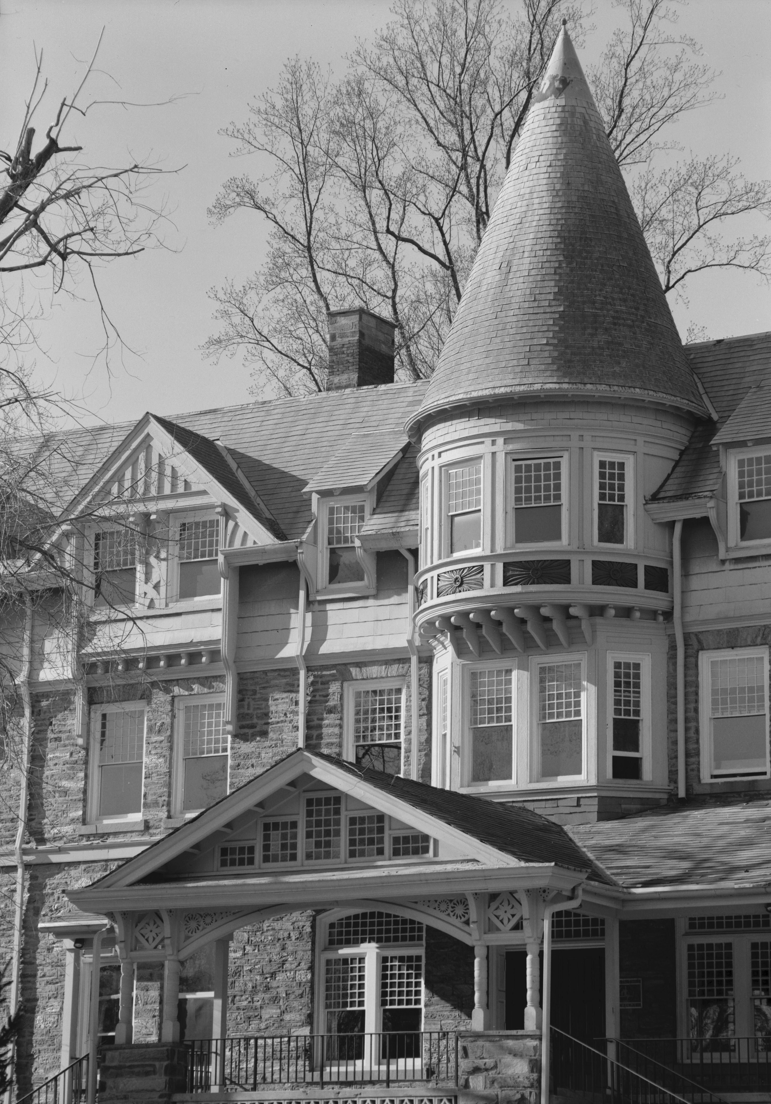 Wissahickon Inn, now Chestnut Hill Academy, Philadelphia, PA. (1883-84, G.W & W.D. Hewitt, architects)